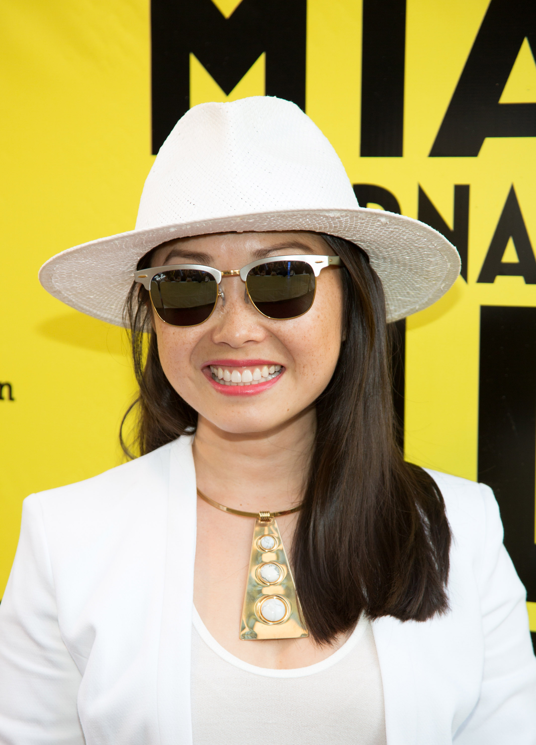 Lulu Wang on the red carpet for the film Sidetracked at the Miami International Film Festival